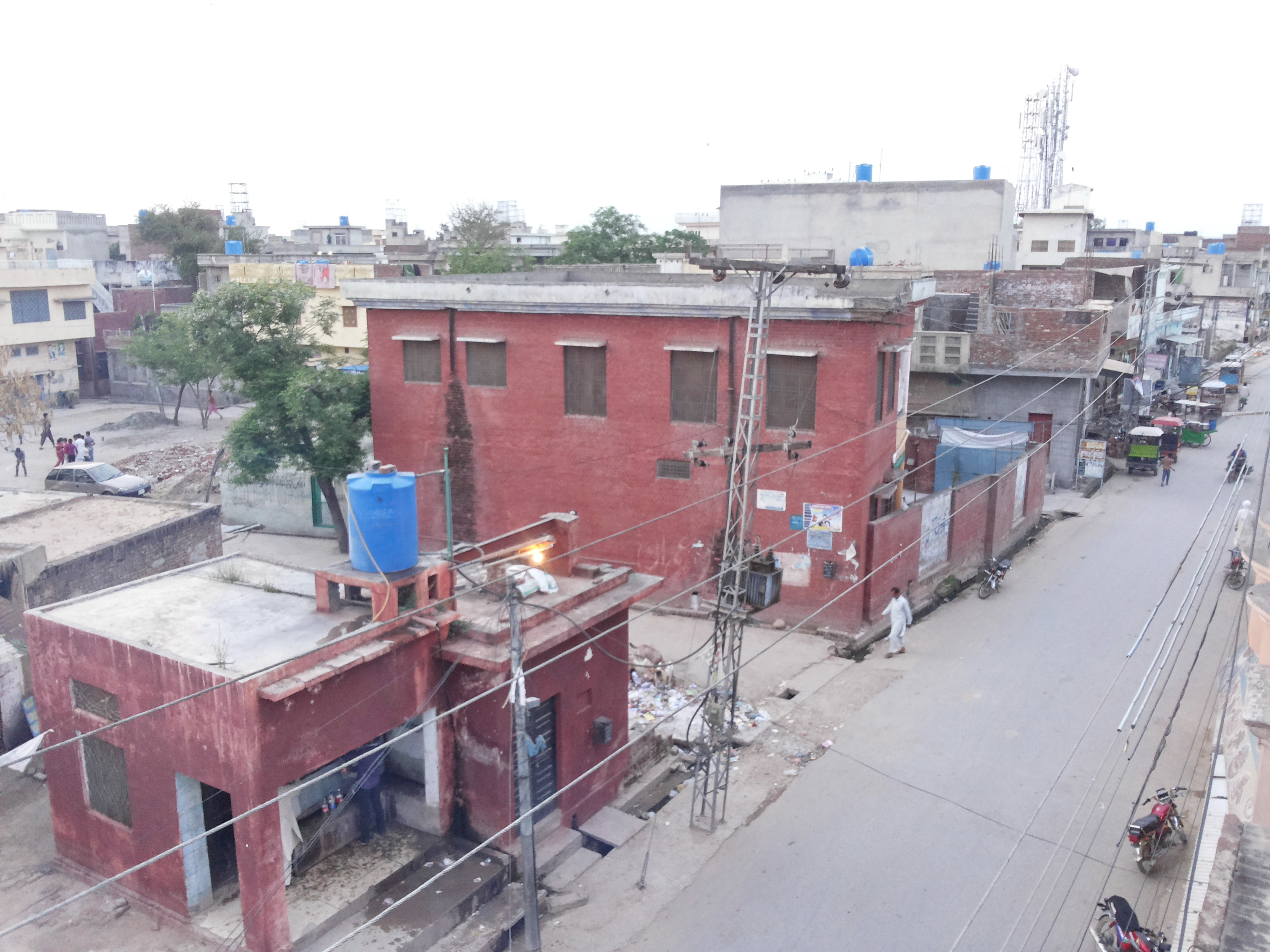 Road view of Sadhu Neighbourhood Jalalpur Jattan